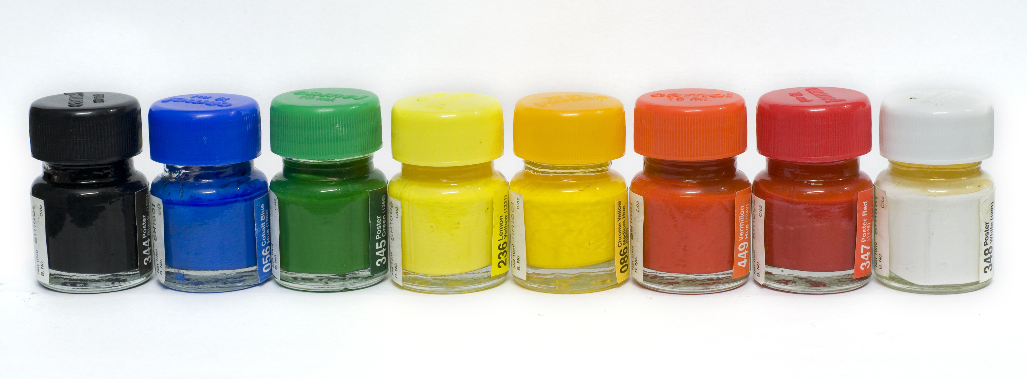 Poster colors bottles